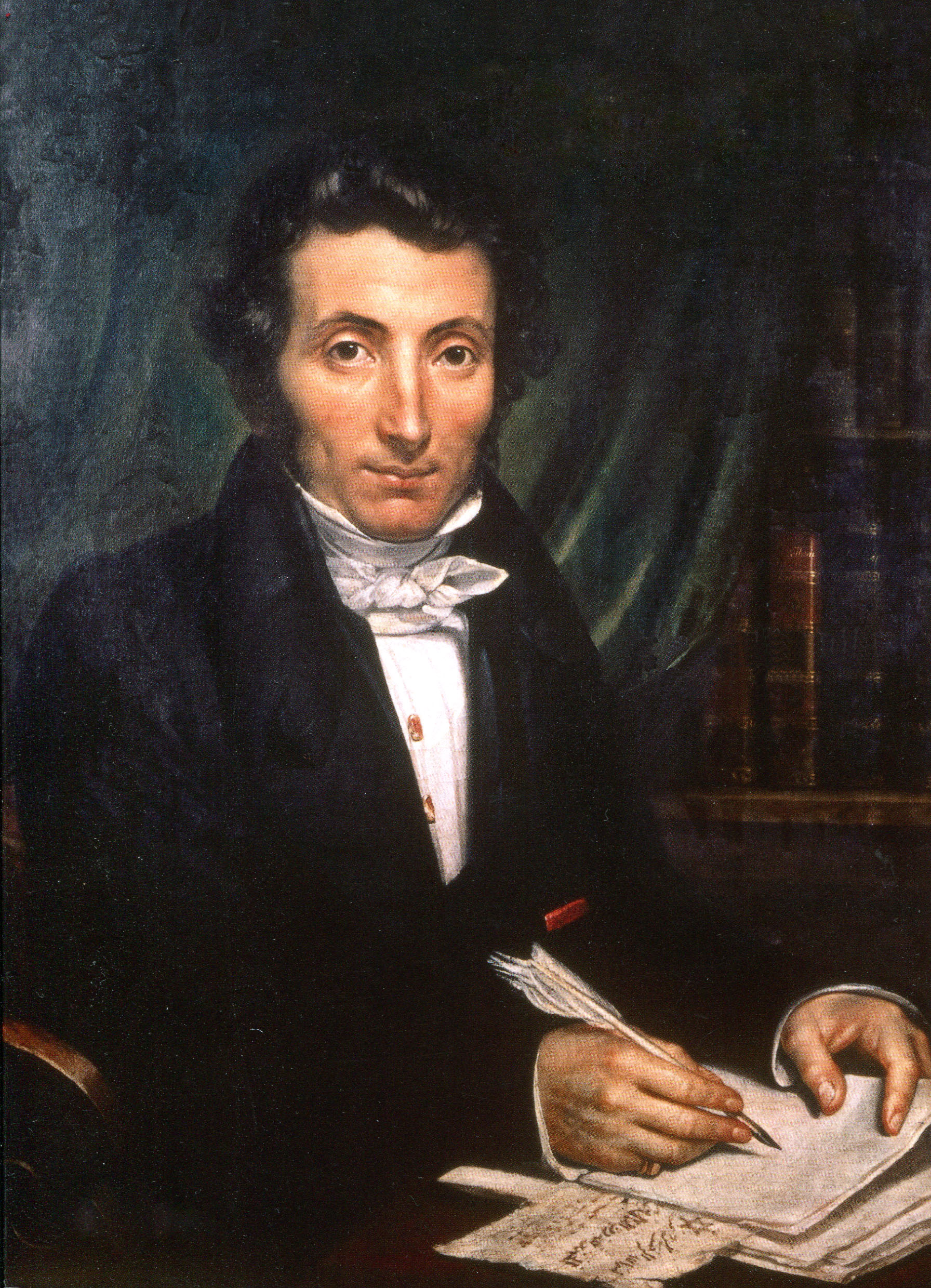 Detail from a portrait of René Caillié